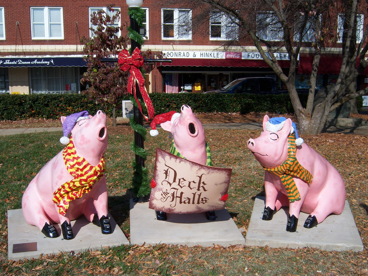 Previous entries from Pigs in the City now on display in various places in Lexington, NC.